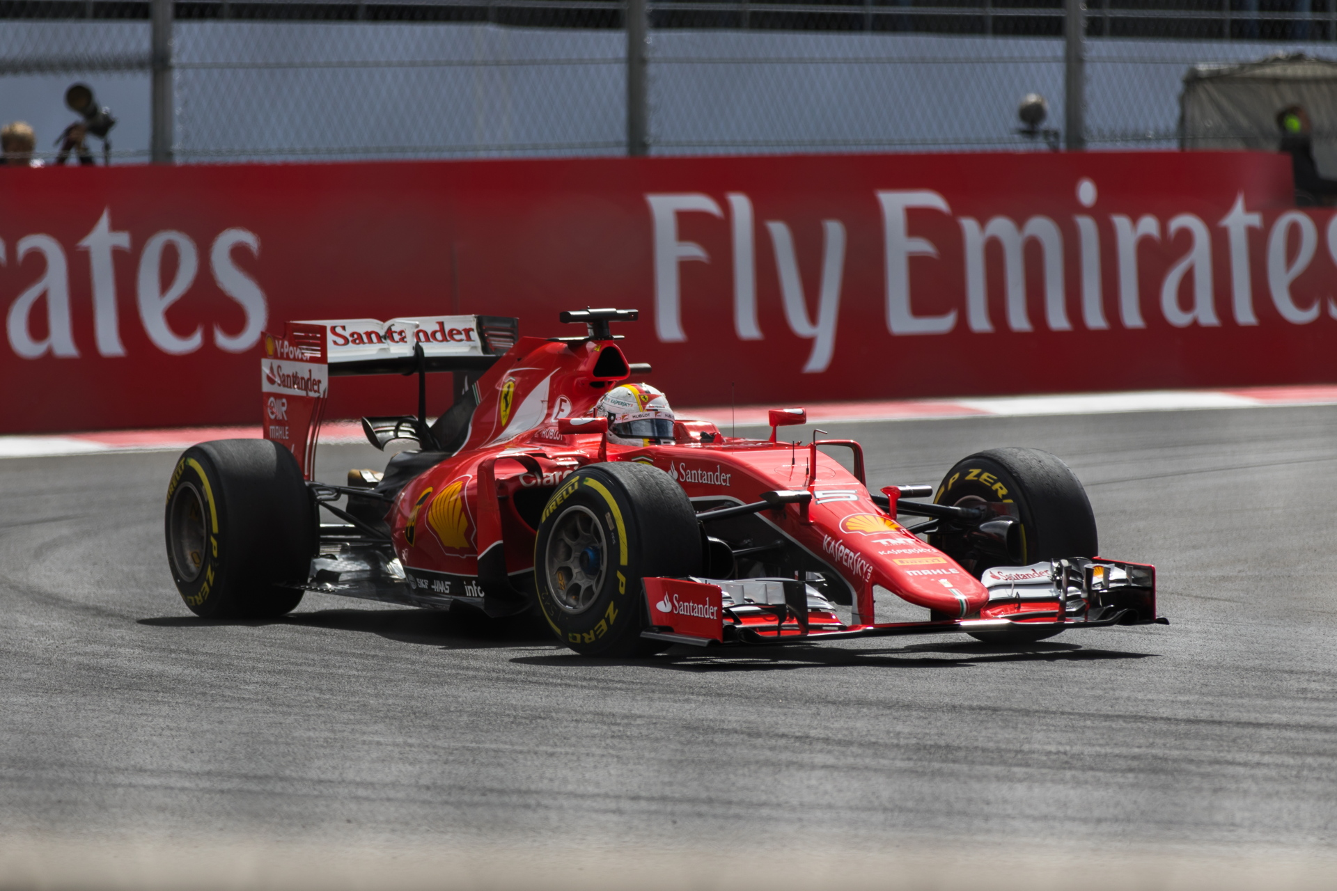 Sebastian Vettel at the 2015 Mexican Grand Prix